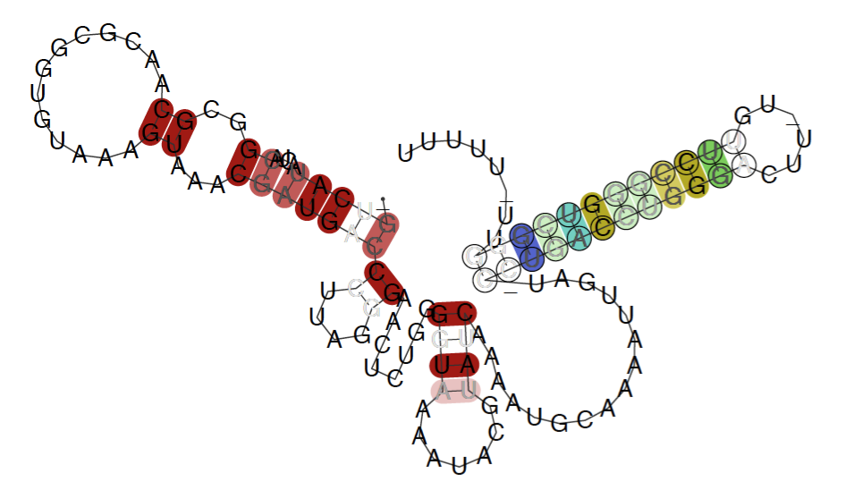 Predicted structure of the Enterobacteria_greA-leader, obtained by RNAalifold.